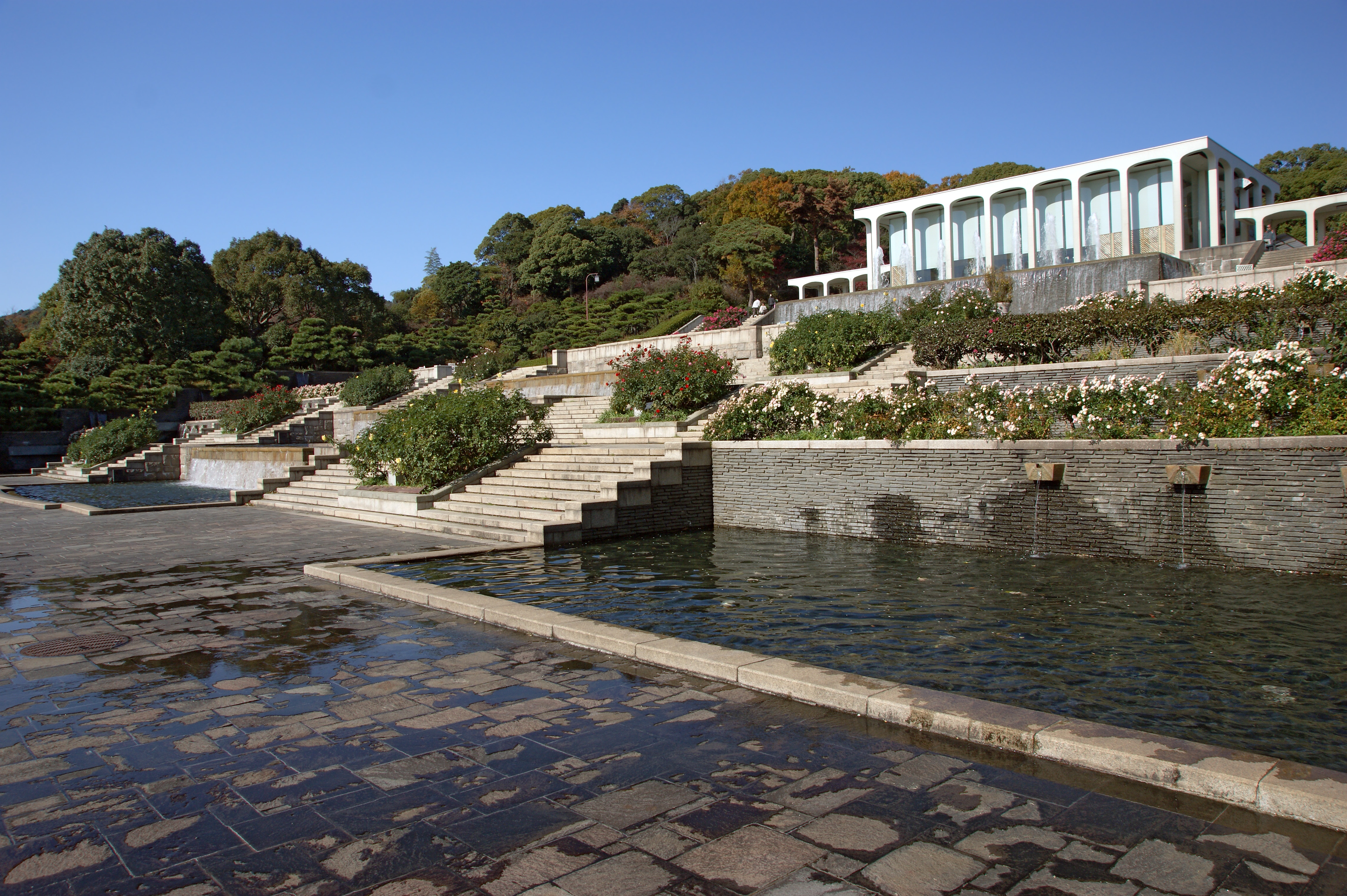 Suma Rikyu Park, Kobe, Hyogo prefecture, Japan